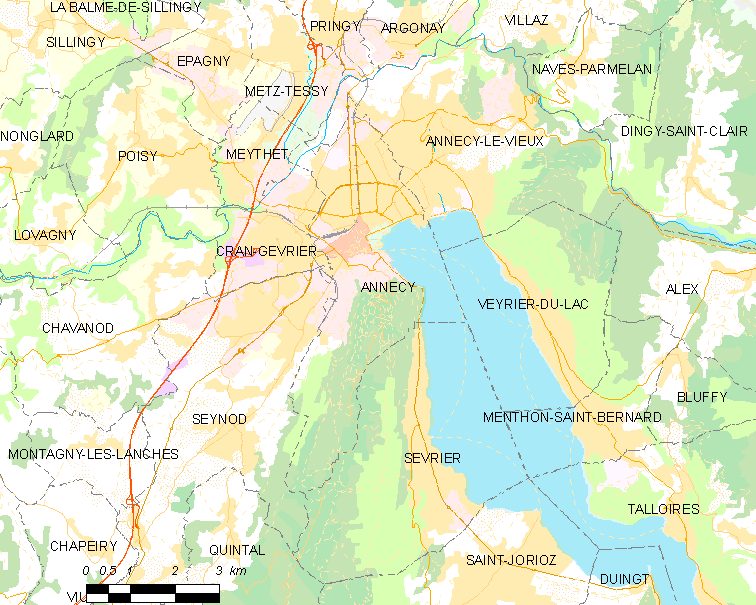 Map of French municipality Annecy